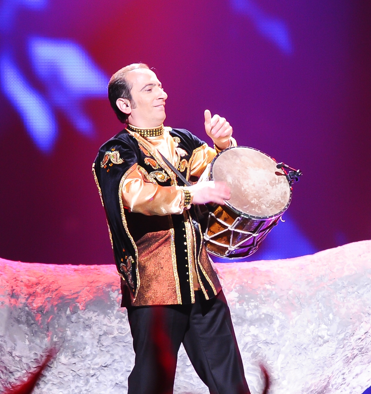 Natiq Shirinov at Eurovision 2012